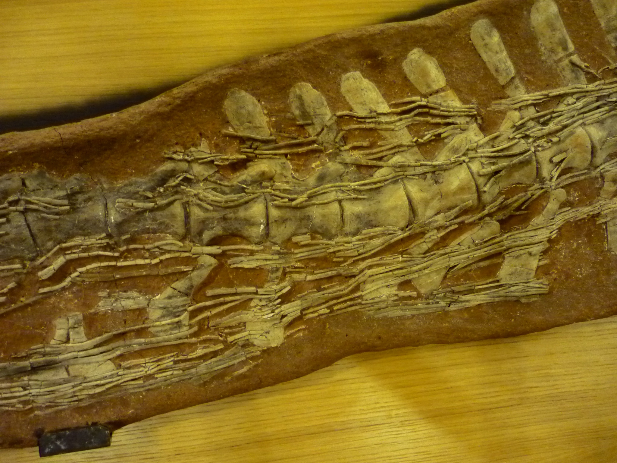 Vertebra and tendons of Tenontosaurus, Institut de paléontologie humaine, Paris, France